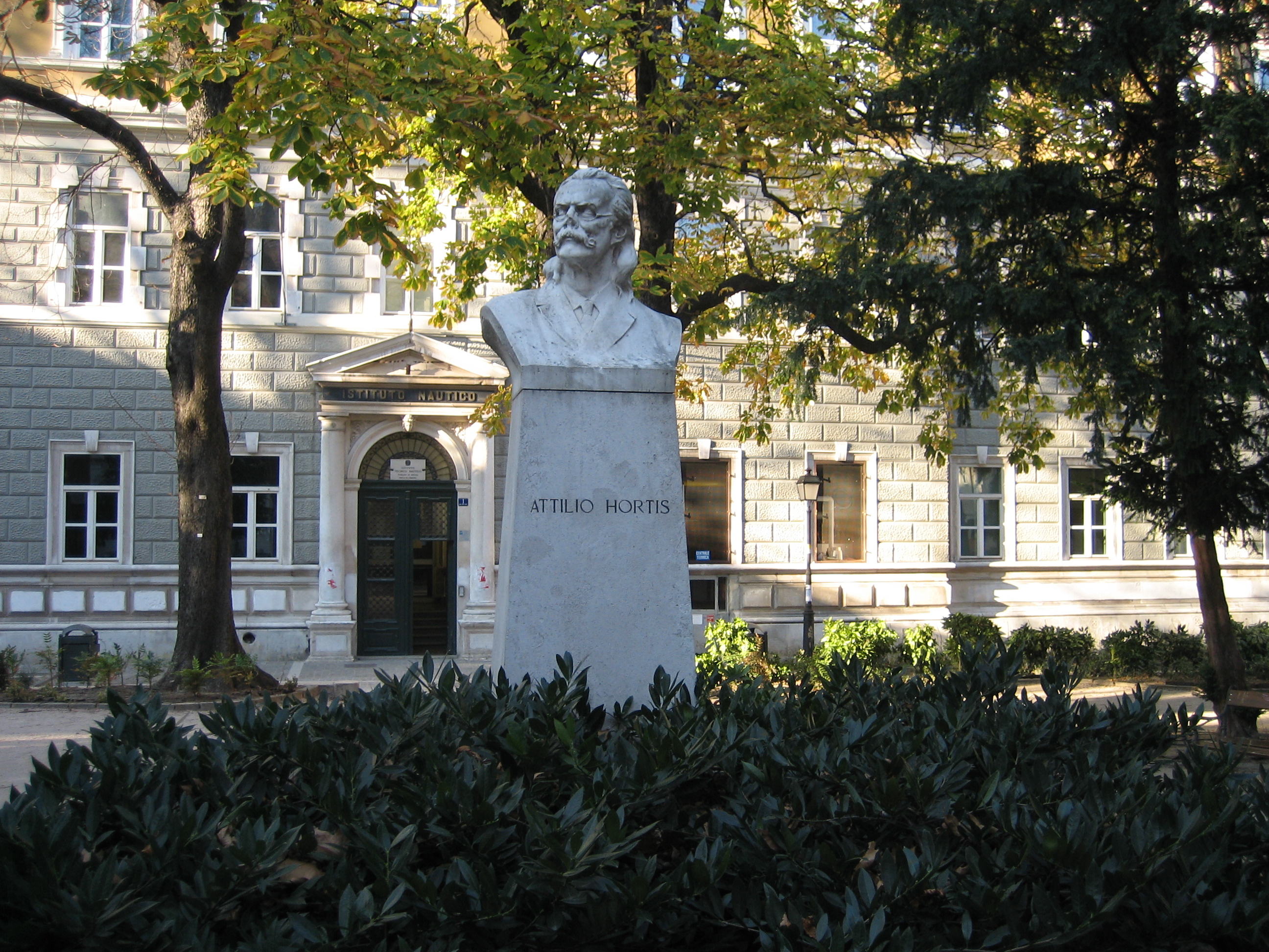 Bust of Attilio Hortis on Piazza Hortis in Trieste